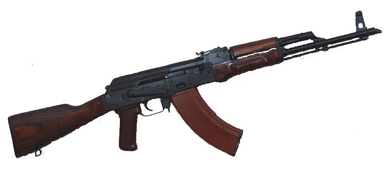 Russian AKM rifle 7.62x39